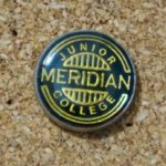 The former collar pin of Meridian Junior College, Singapore.